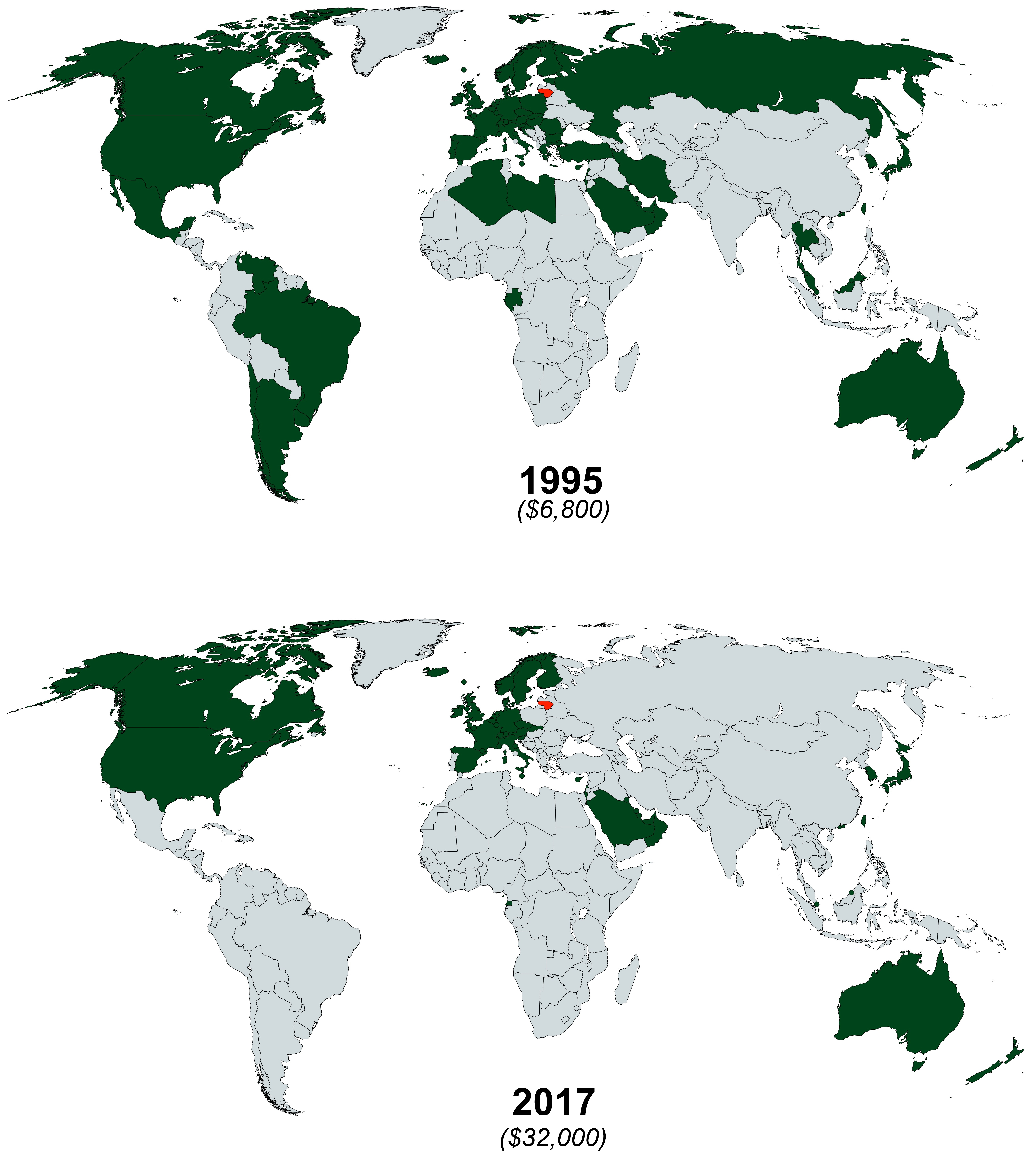 Countries with larger GDP PPP per capita than Lithuania in 1995 vs 2017